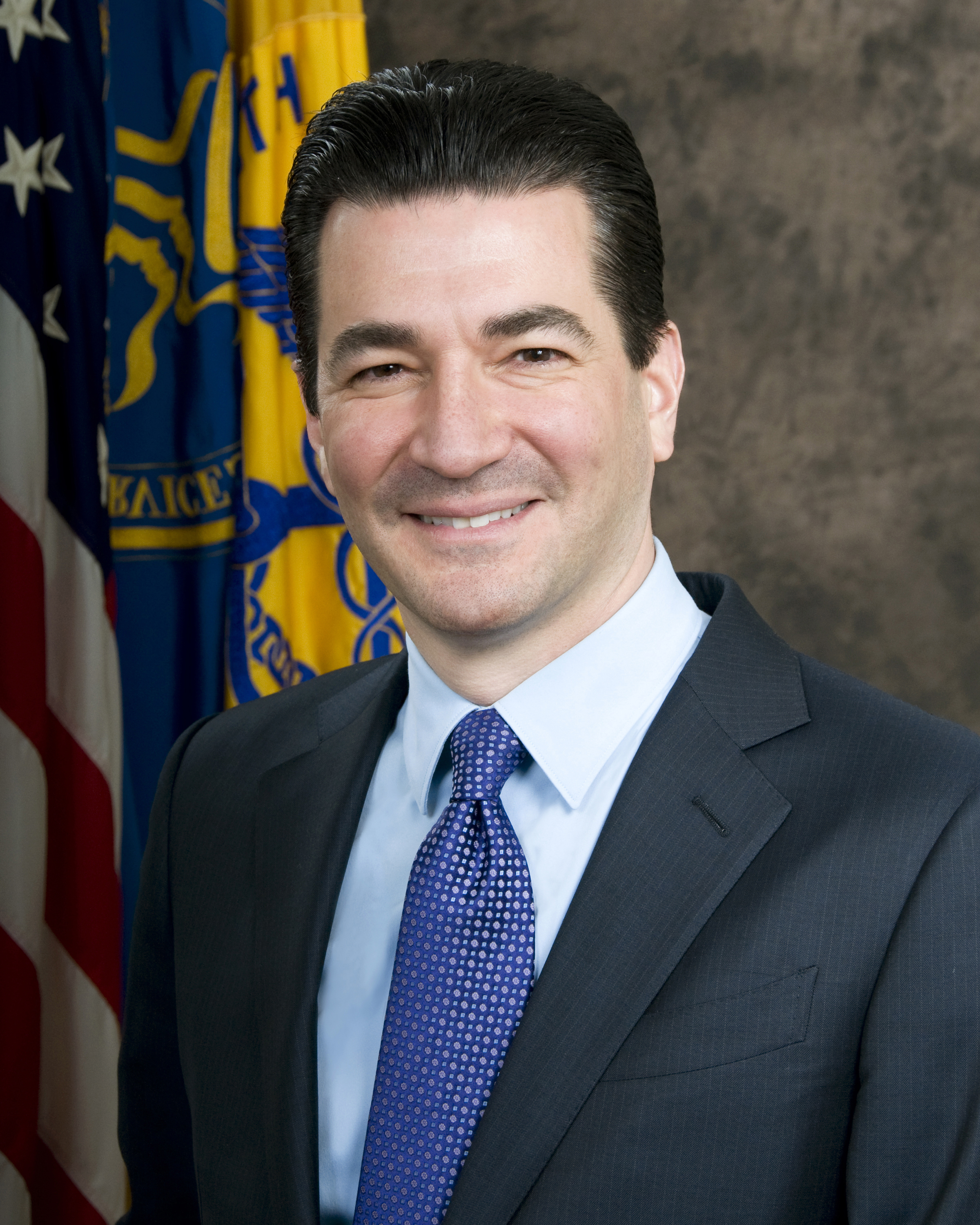 Scott Gottlieb, Commissioner of Food and Drugs, official portrait.